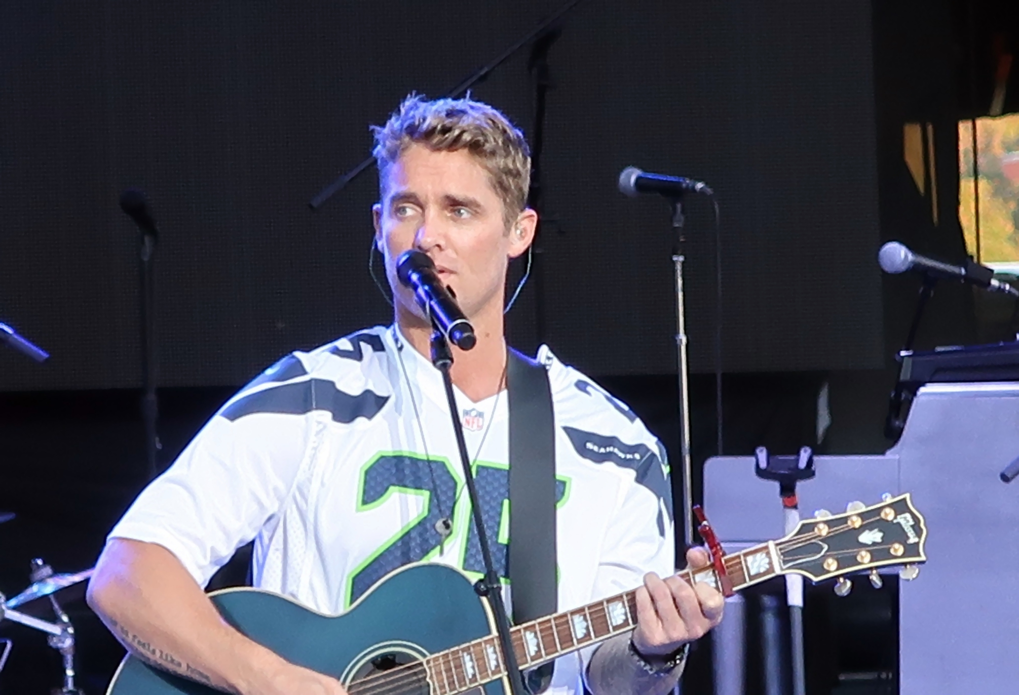 Brett Young opening for Lady Antebellum in their You Look Good Tour in September 2017